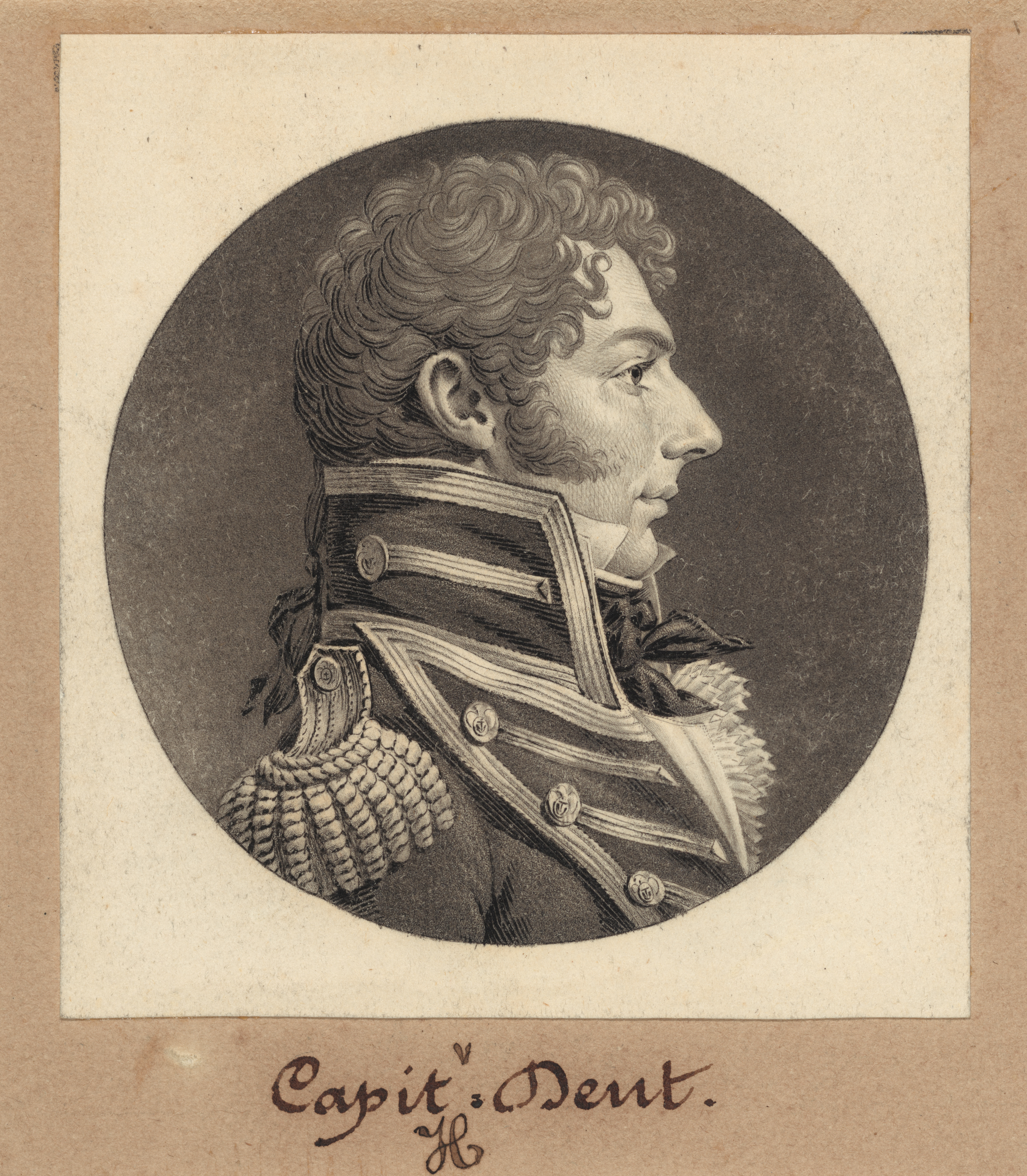 Portrait of Captain John Herbert Dent from Saint-Mémin Collection of Portraits by Charles B. J. Févret de Saint-Mémin (1770 - 1852), c. 1809